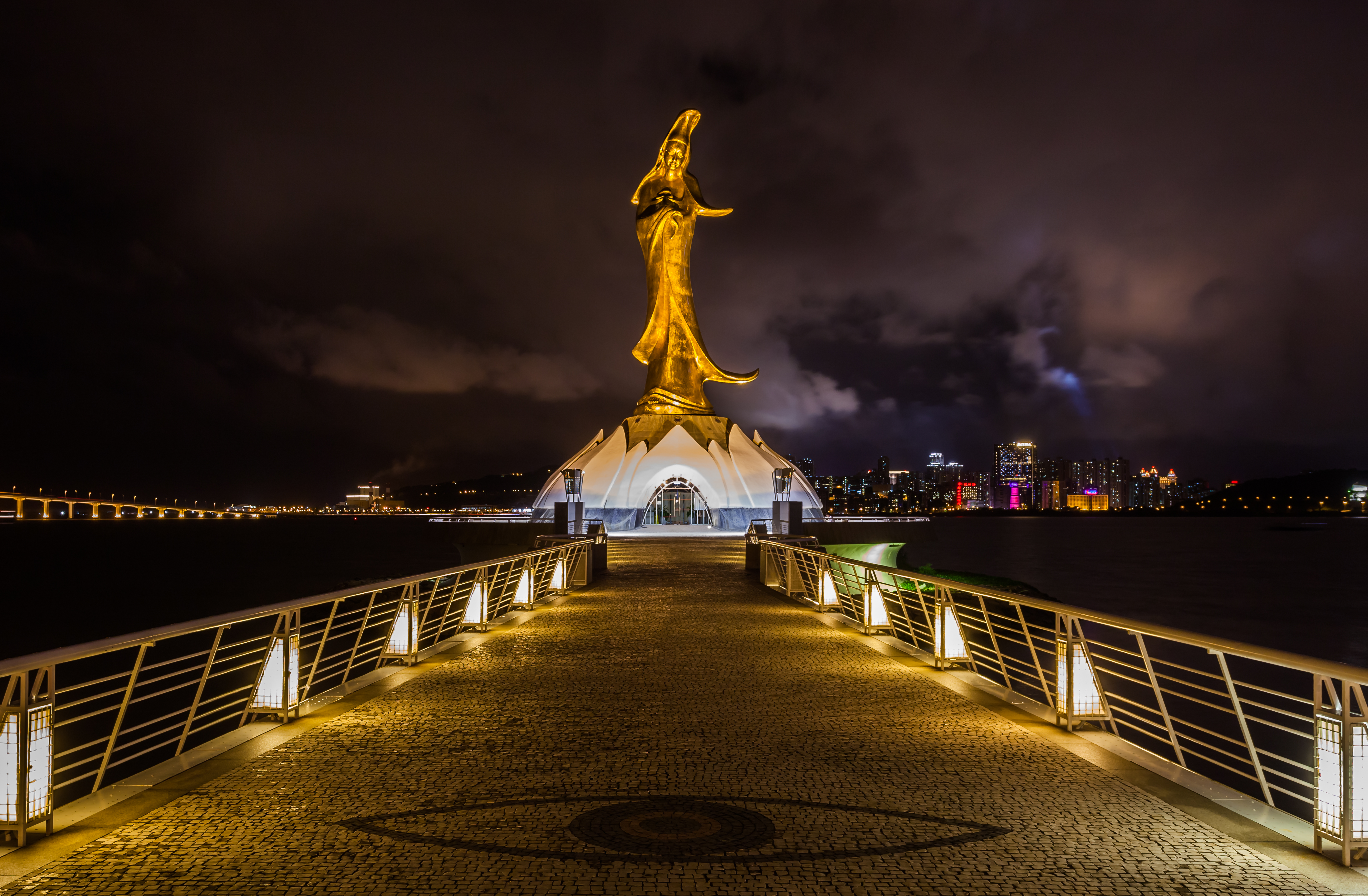 Guan Yin Statue, Macau